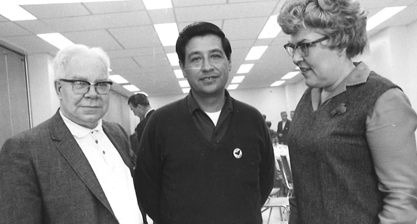 UPWA leaders Fred Dowling and Iona Samis with legenary activist Cesar Chavez in Toronto